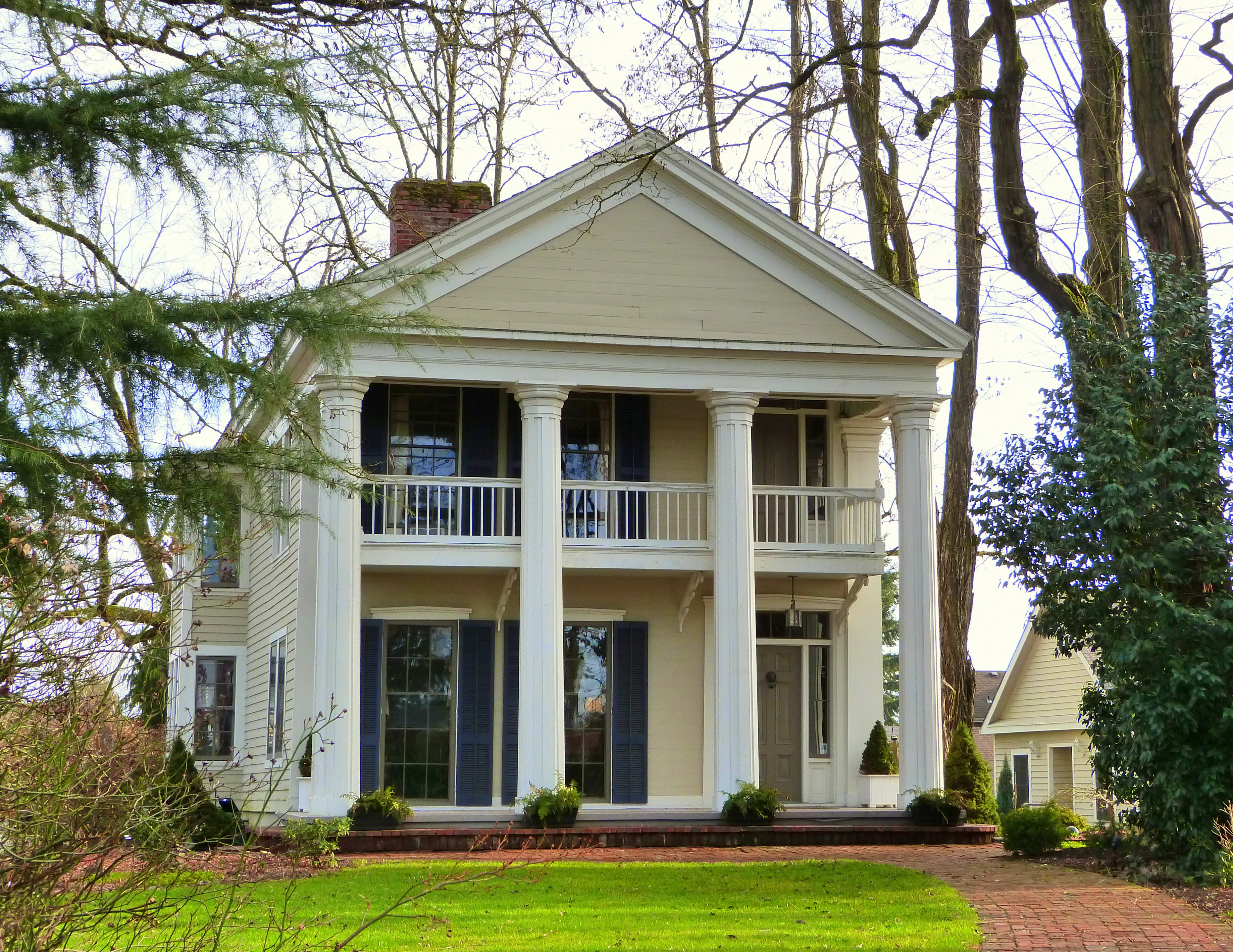 The historic Capt. John C. Ainsworth House (built 1851), located at 19130 Lot Whitcomb Drive in Oregon City, Oregon, United States, is listed on the U.S. National Register of Historic Places.